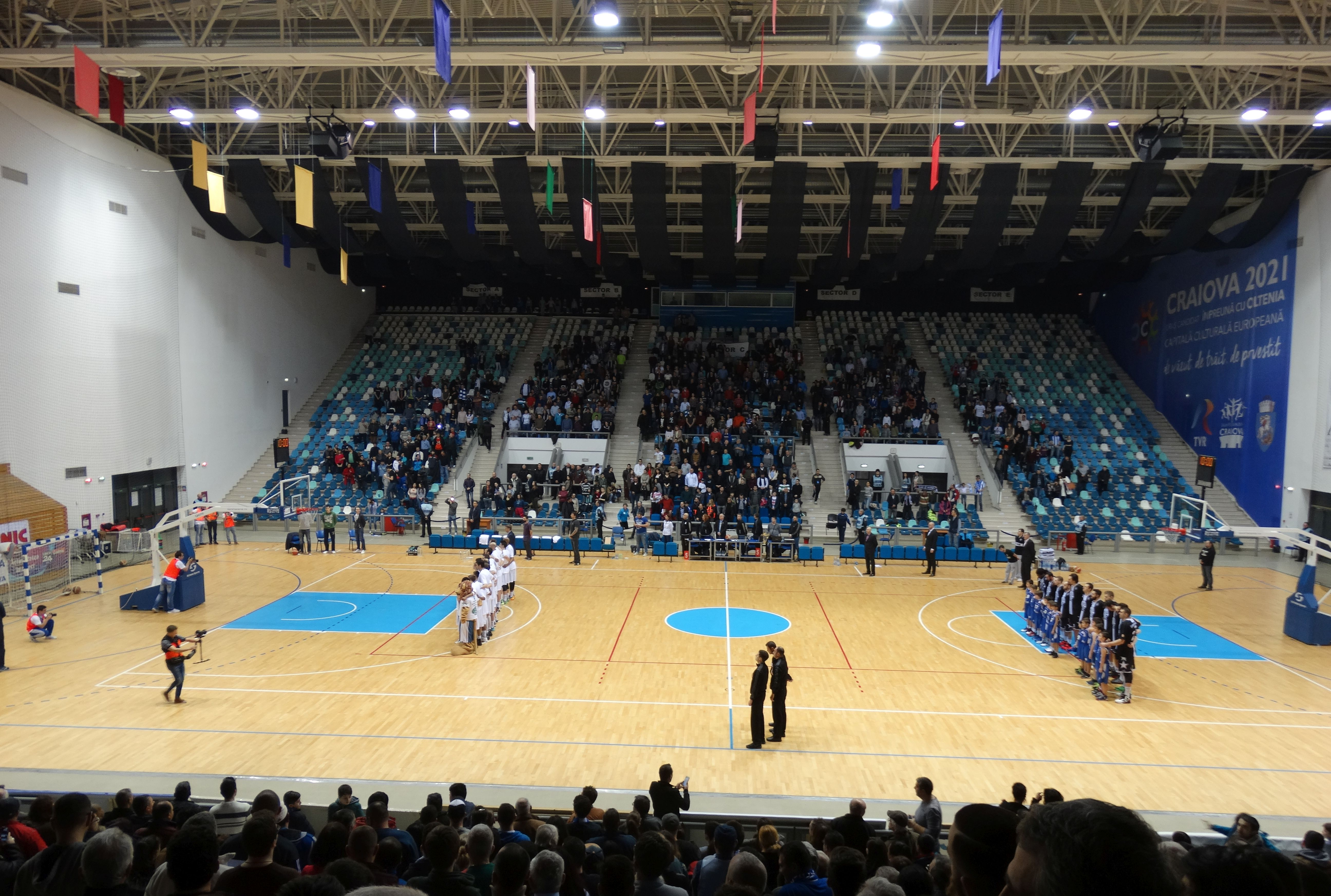 Polyvalent Hall from Craiova right before a game from 10 February 2016.